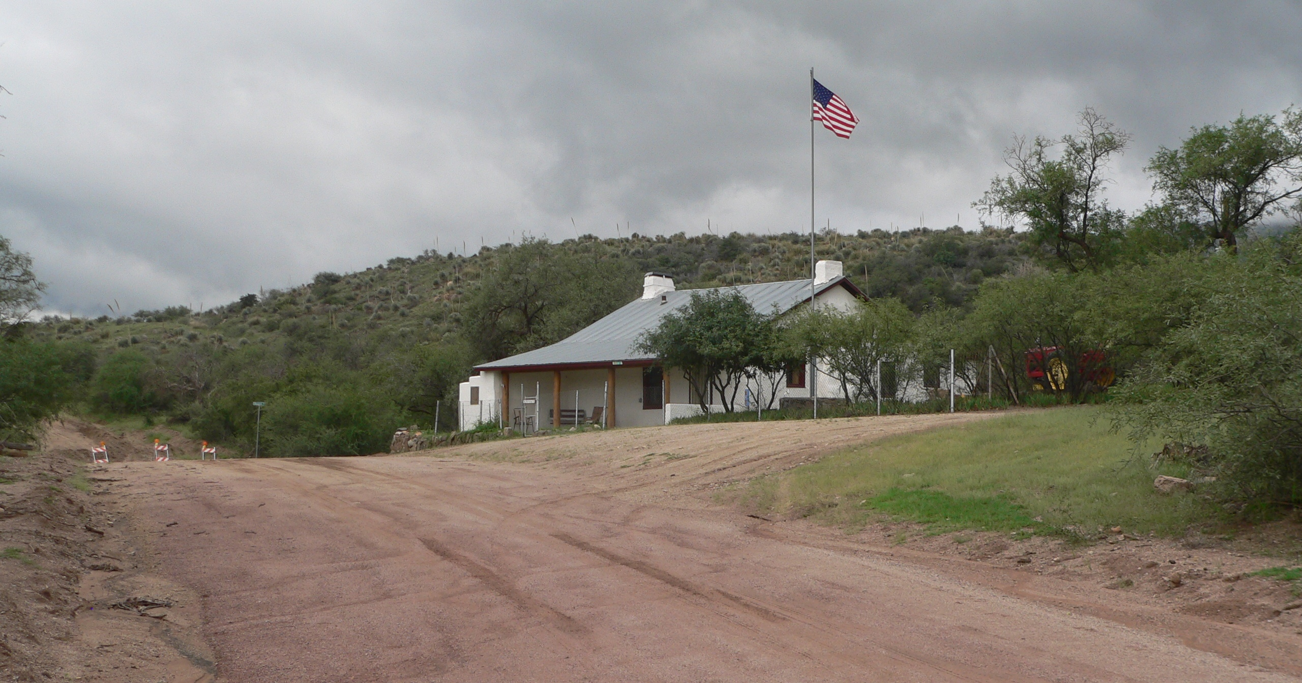 American Flag post office building, located off Mt. Lemmon Highway southeast of Oracle, Arizona. View is from the north.